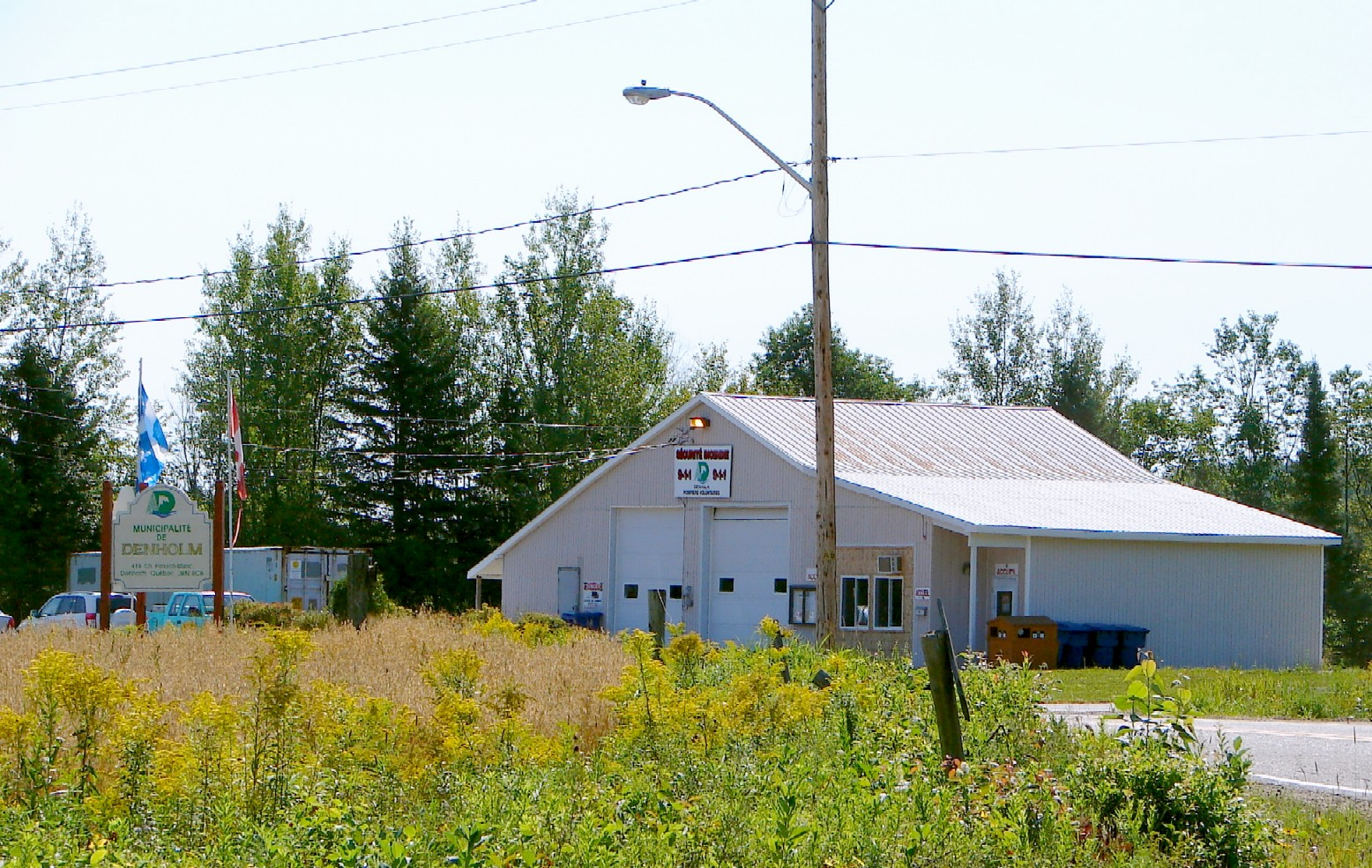 Municipal office of Denholm, Quebec, Canada